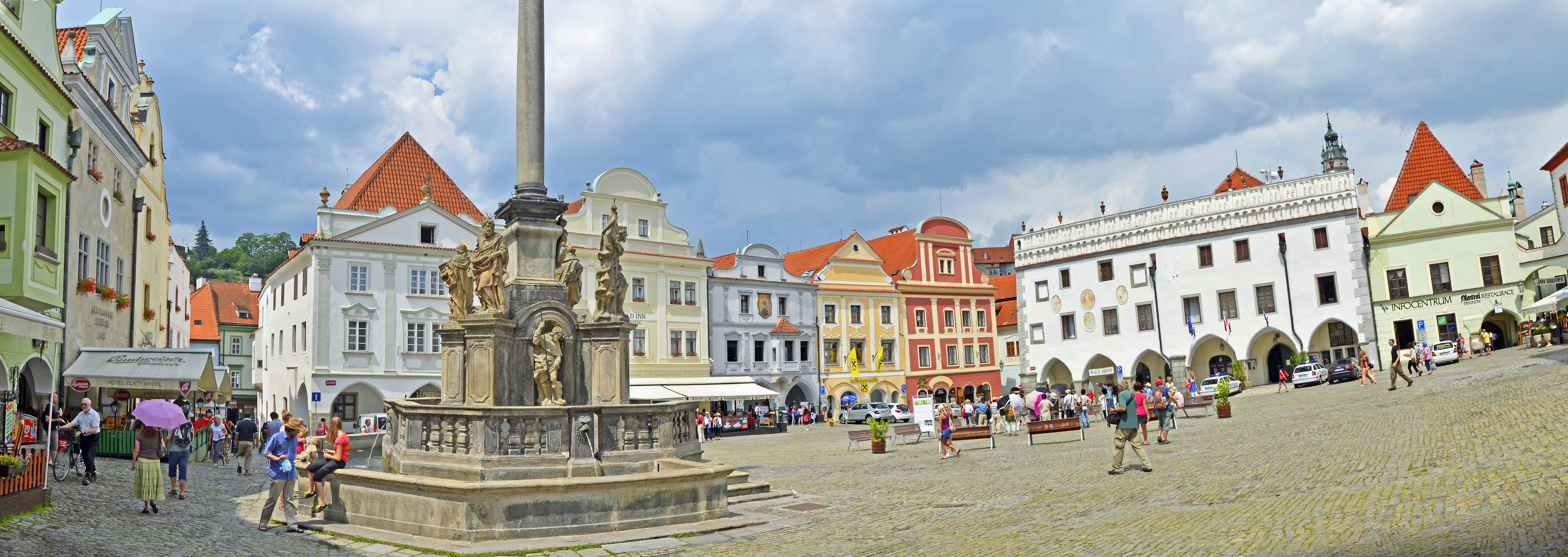 Cesky Krumlov - Panorama of the market place (Czech Republic)